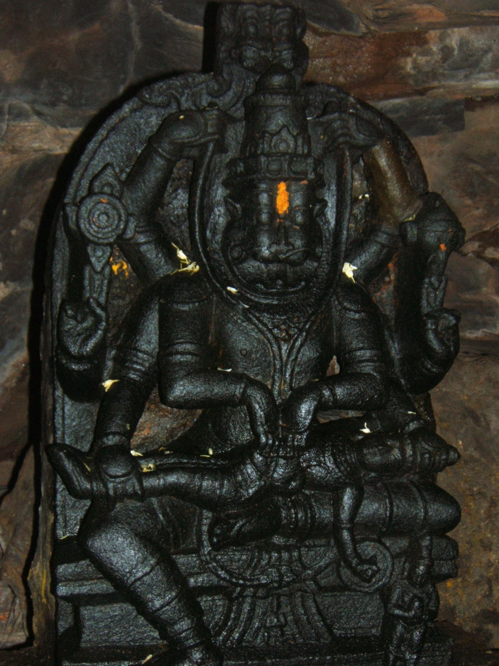 Jwala_Narasimha_Ahobilam (Narasimha deity from the exact place in South India, where according to Puranas Narasimha reached the height of his fury, tearing apart Hiranyakashipu).